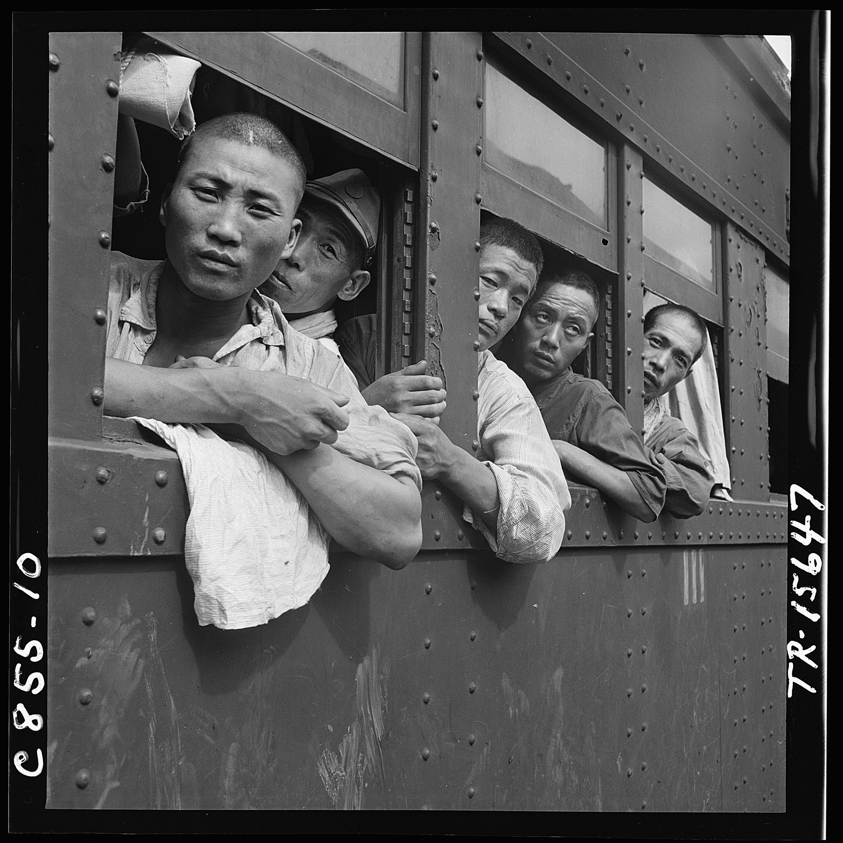 General notes: Use War and Conflict Number 1248 when ordering a reproduction or requesting information about this image.